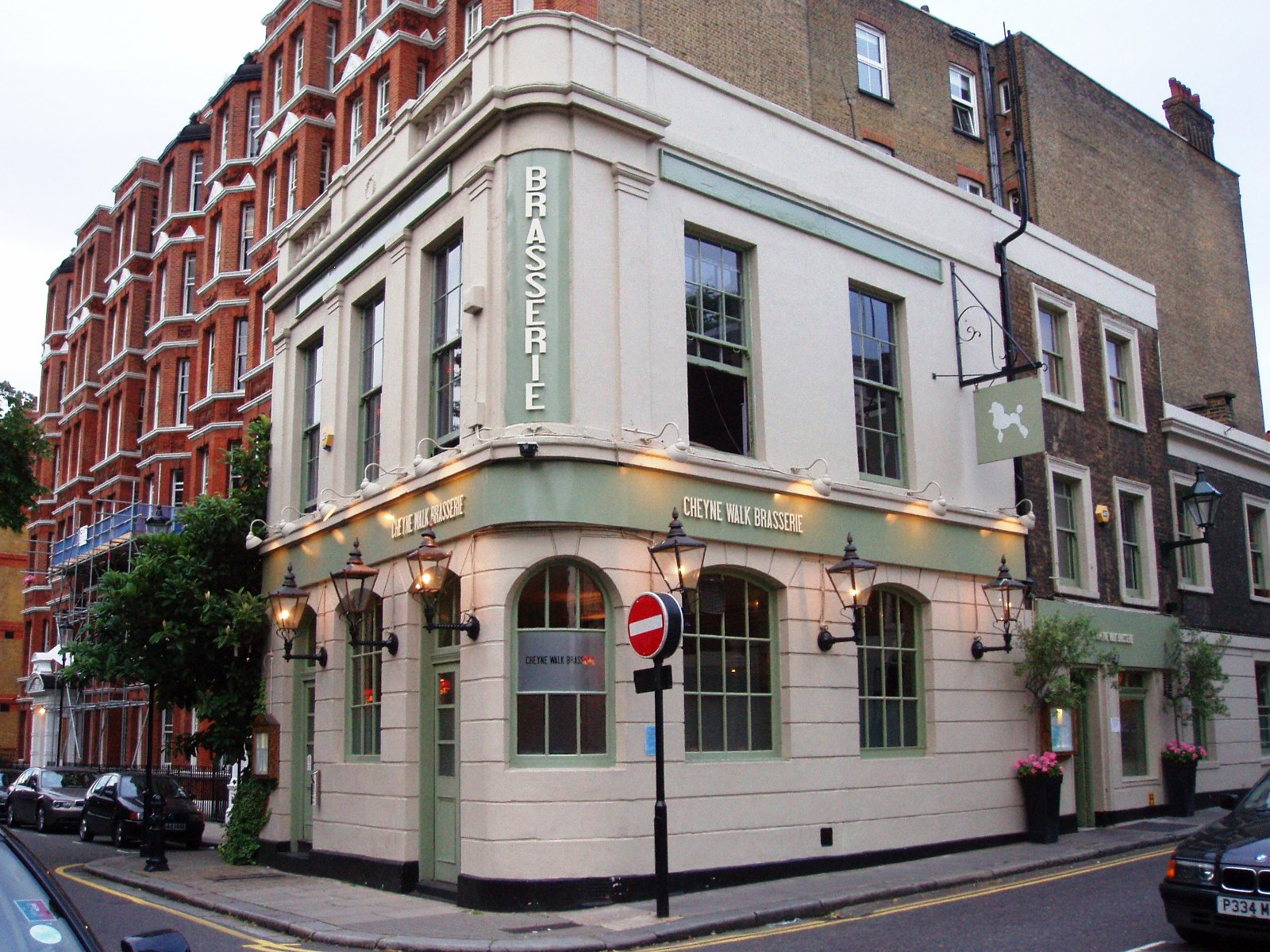 Formerly a pub, now a posh brasserie as you'd expect for this most exclusive of streets. Note the sign has a poodle on it! Address: 50 Cheyne Walk. Former Name(s): The King's Head and Eight Bells; The King's Head; The Six Bells (on the same site). Owner: (website); Whitbread (former). Links: London Eating Qype Fancyapint (King's Head and Eight Bells) Dead Pubs (history)